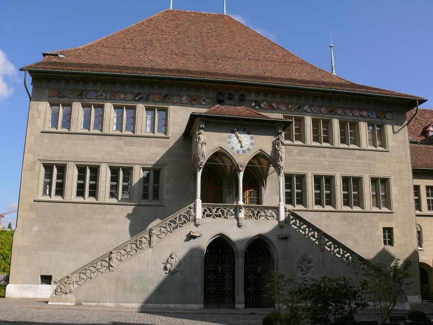 City Hall of Berne